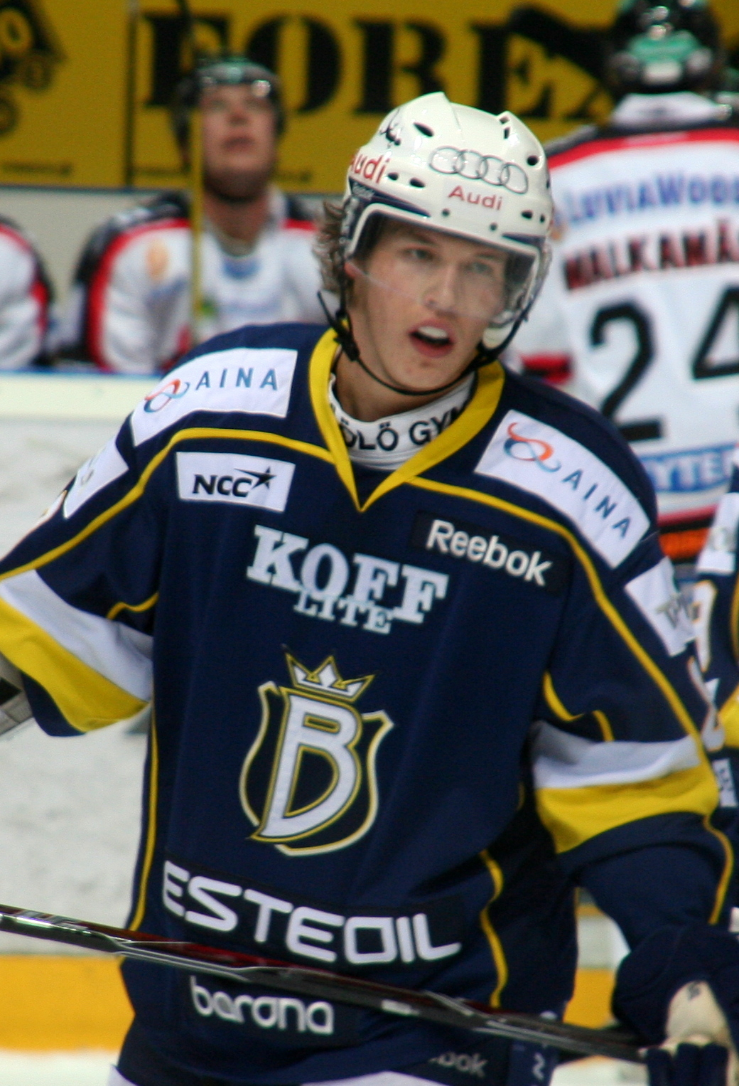 Ice Hockey Team Espoo Blues Attacker #80 Jere Sallinen